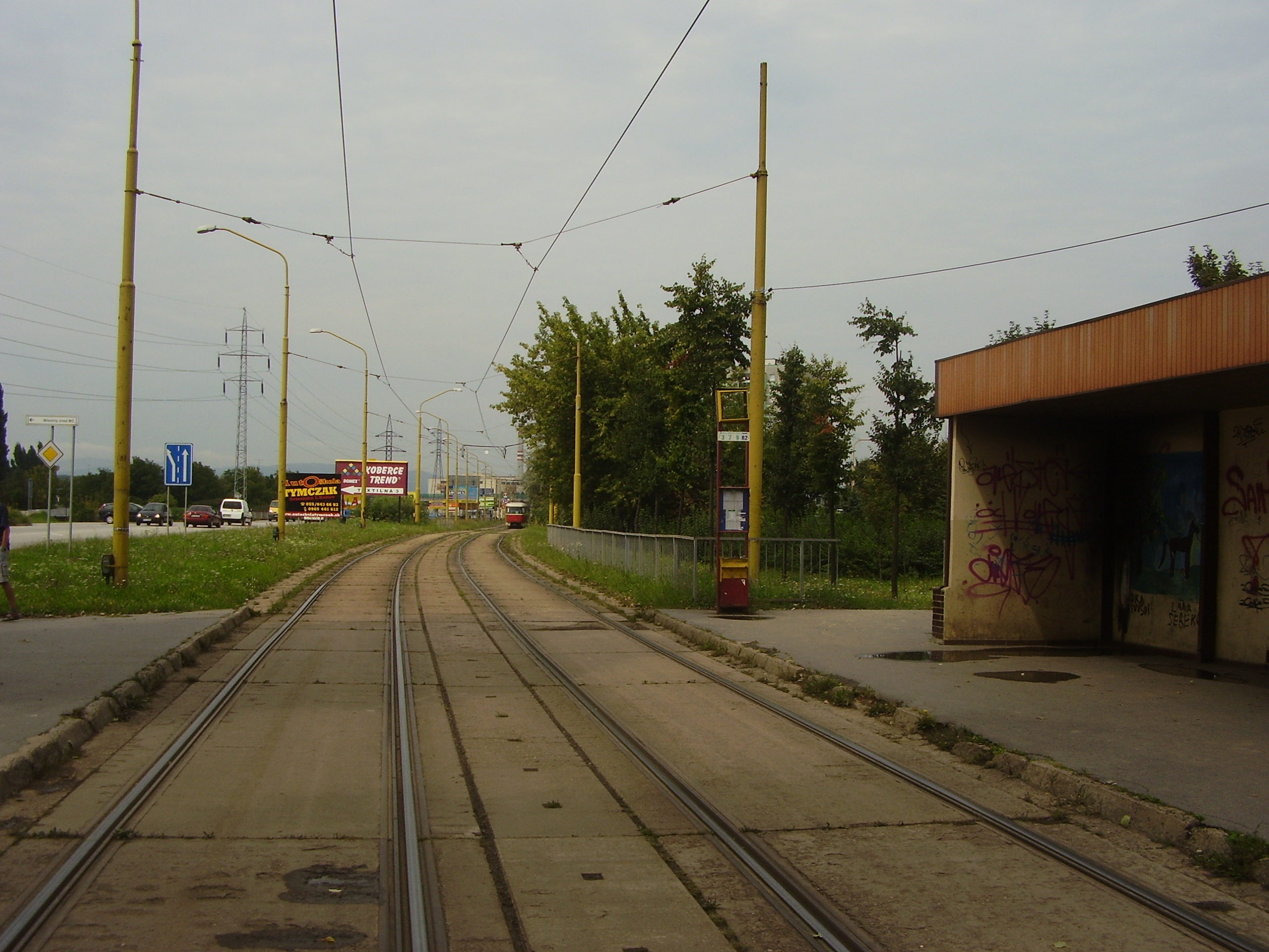 Tram track Nad Jazerom – centrum, Ladožská towards centrum, Košice